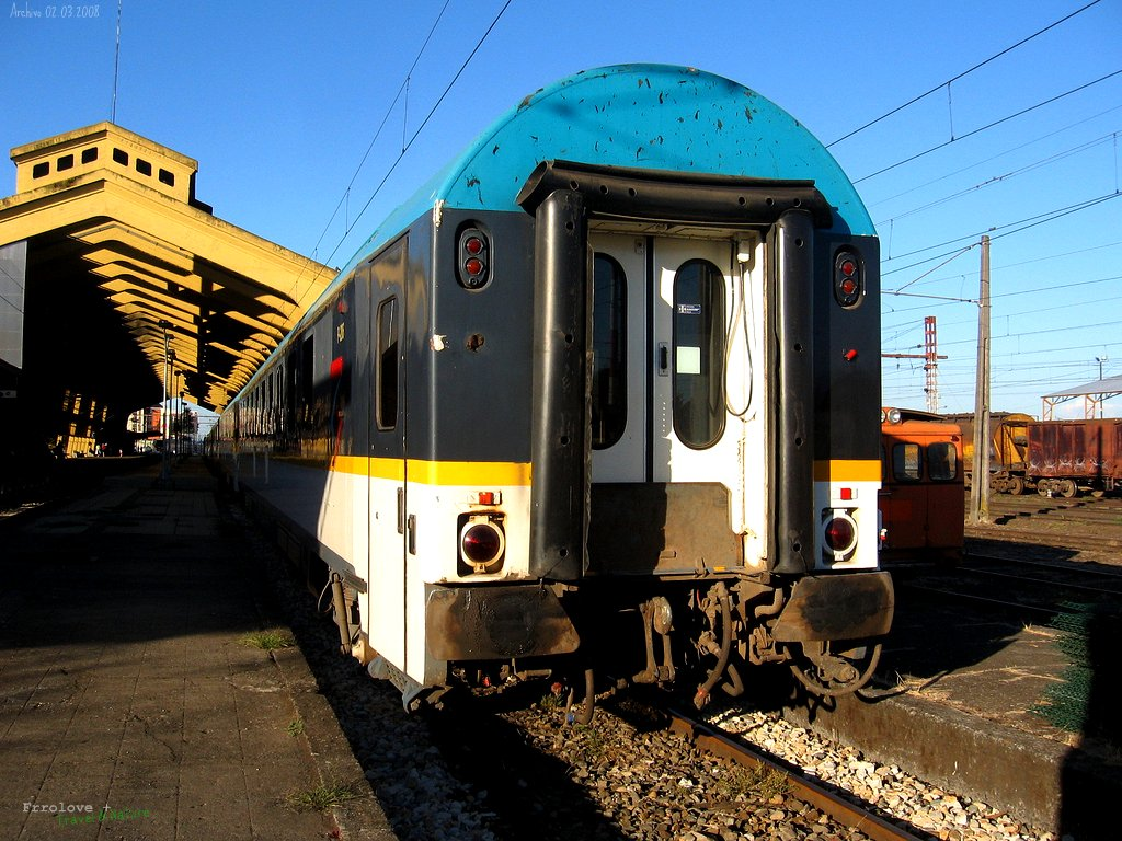 Terrasur, Chile